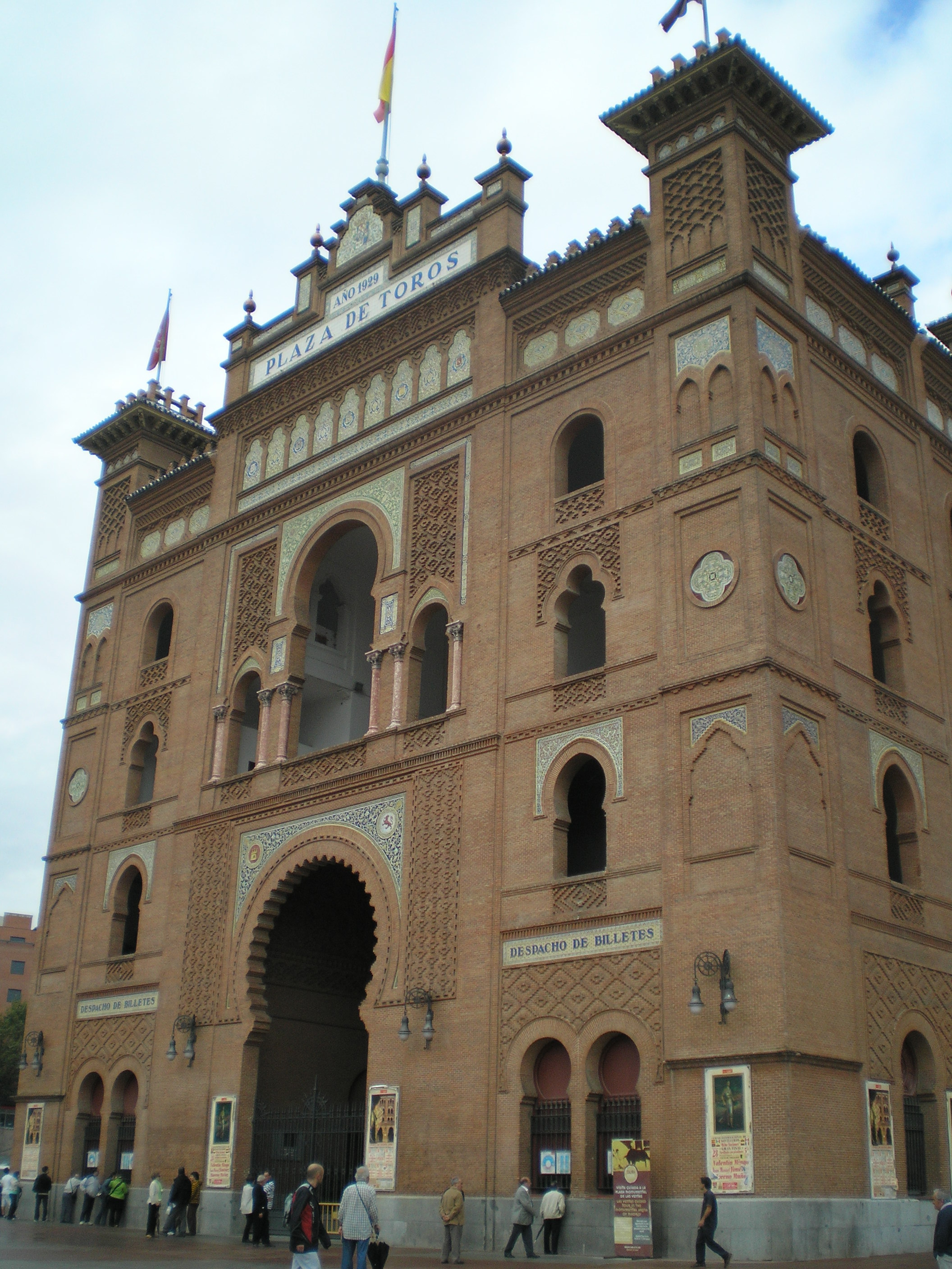 Main facade of Las Ventas Bullring, Madrid.